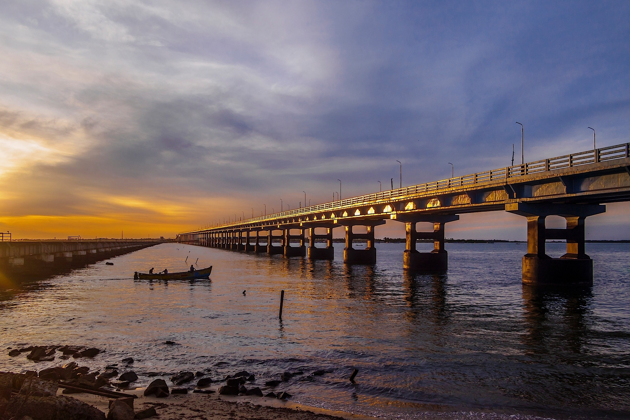 Pamban Bridge, Rameshwaram